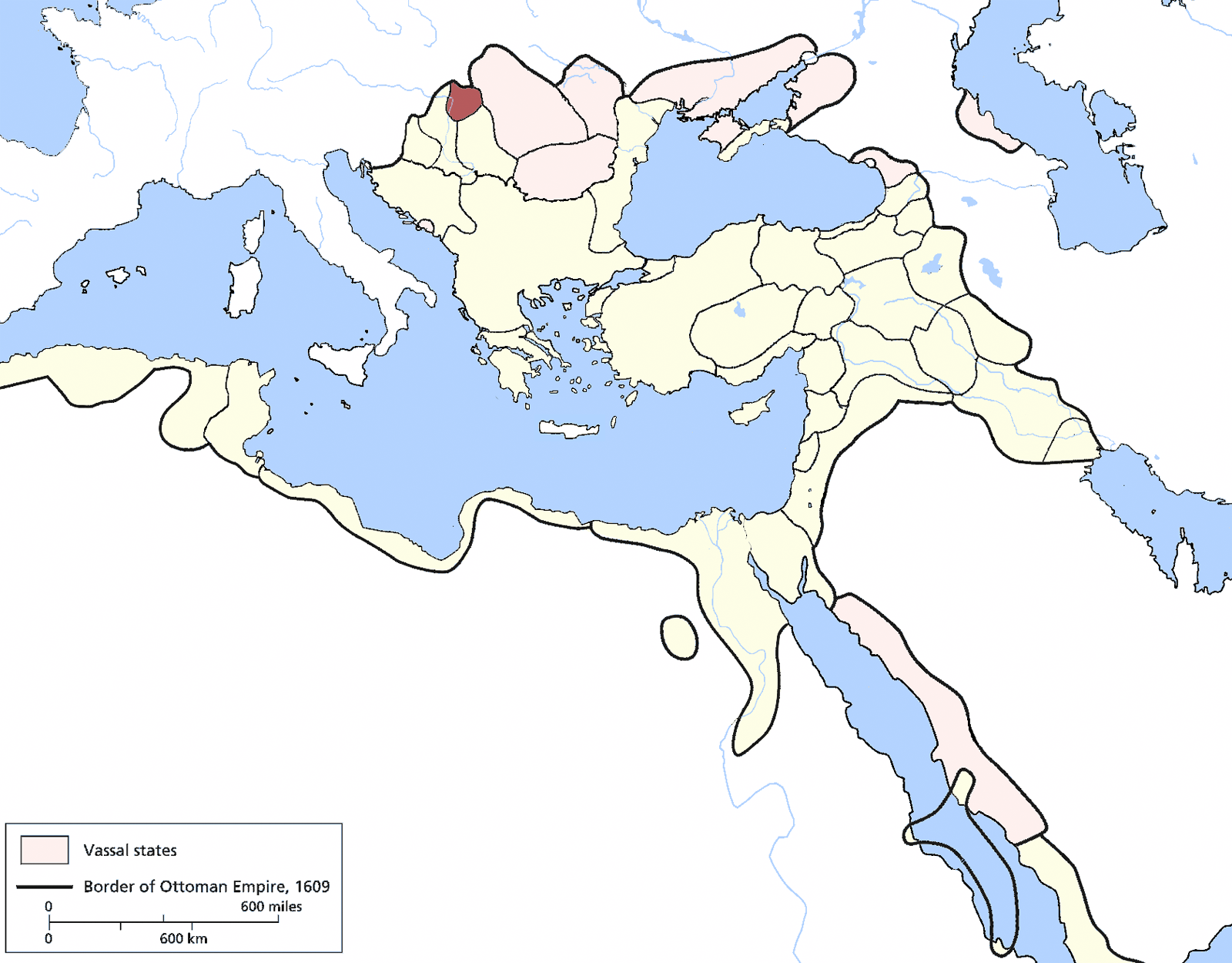 Eger Eyalet, Ottoman Empire (1609). Source: Encyclopedia of the Ottoman Empire at Google Books By Gábor Ágoston, Bruce Alan Masters